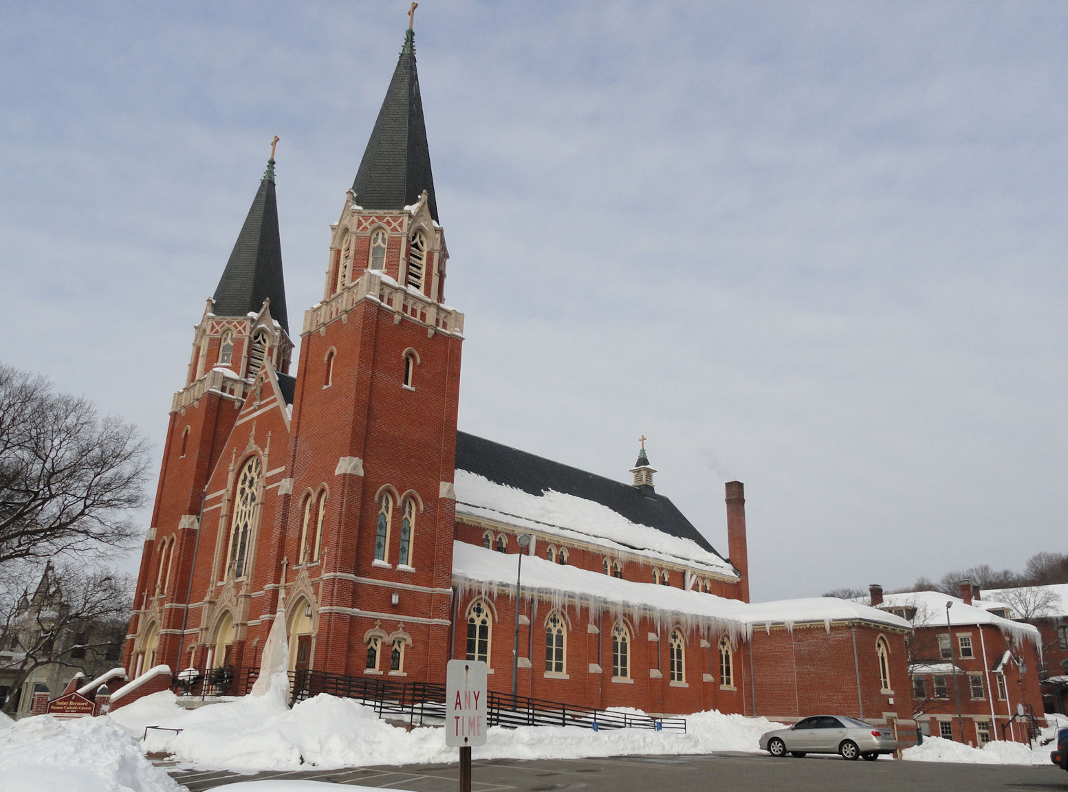 St. Bernard Church, Rockville CT Joseph A. Jackson of New Haven and New York architect